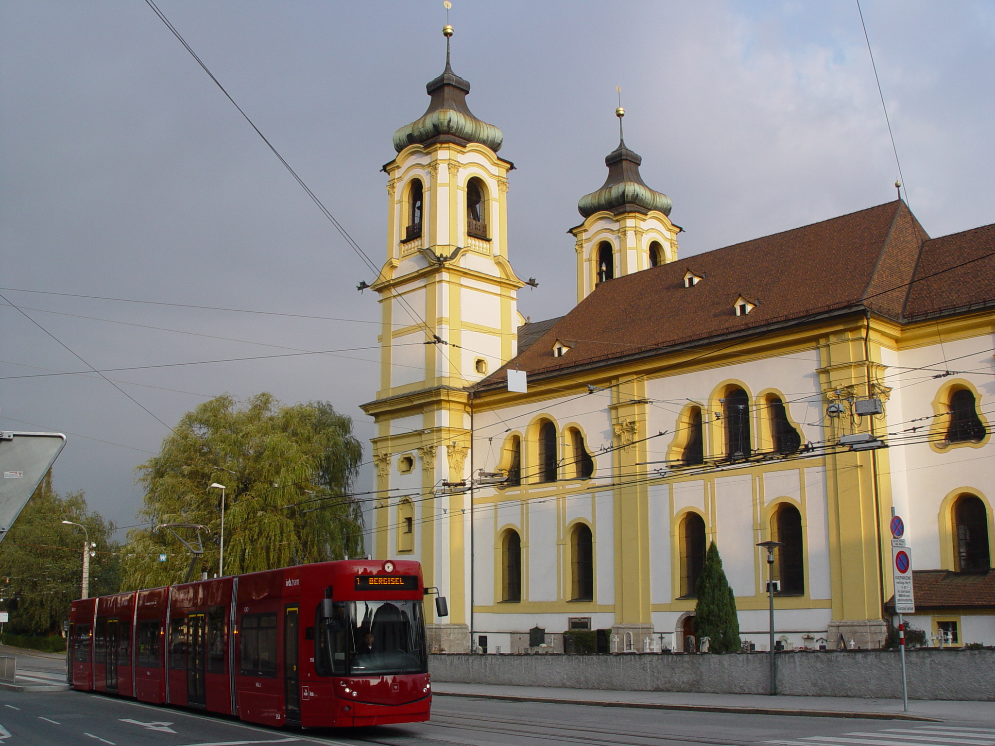 Motorcar 352 of the Tramway Innbsbruck